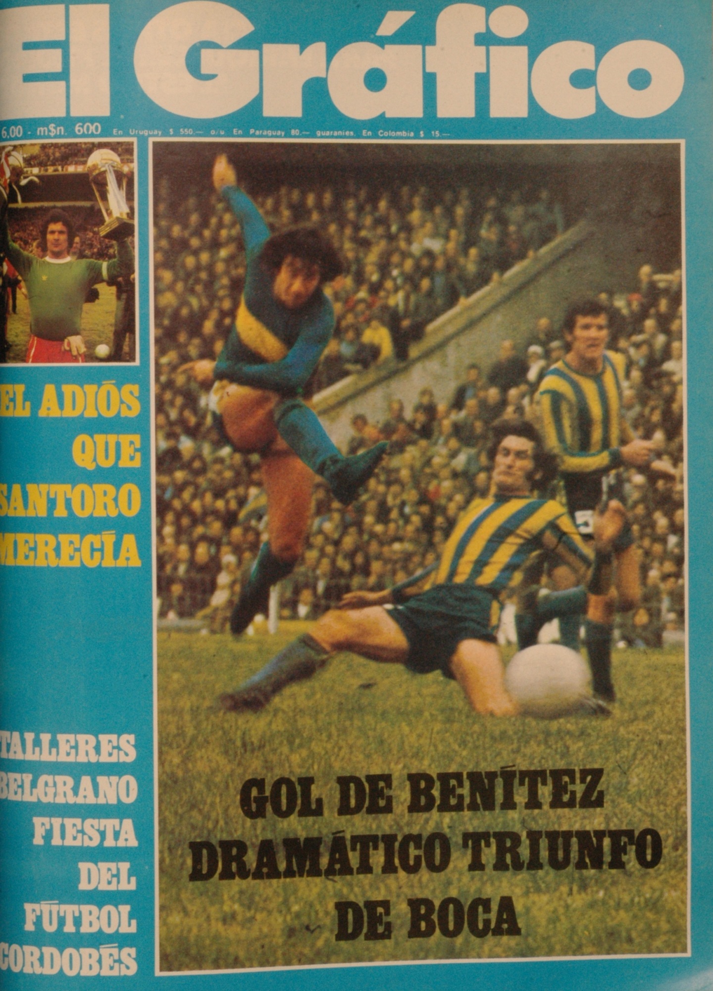 Boca Juniors (2) vs Rosario Central (1), Jorge Benítez in action.